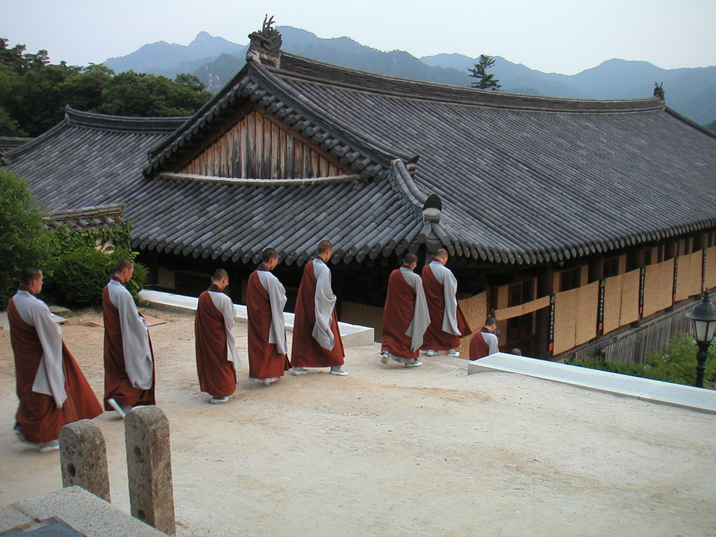 Monks going down to their rooms after evening worship at Haeinsa (해인사, Temple of Reflection on a Smooth Sea). The temple is one of the foremost Chogye Buddhist temples in South Korea. It is most notable for being the home of the Tripitaka Koreana, the whole of the Buddhist Scriptures carved onto 81,258 wooden printing blocks, which it has housed since 1398.